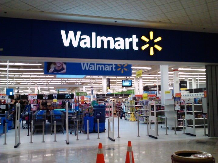 Former Zeller